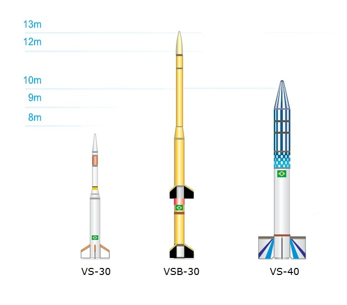 Brazilian VS rocket family shapes.